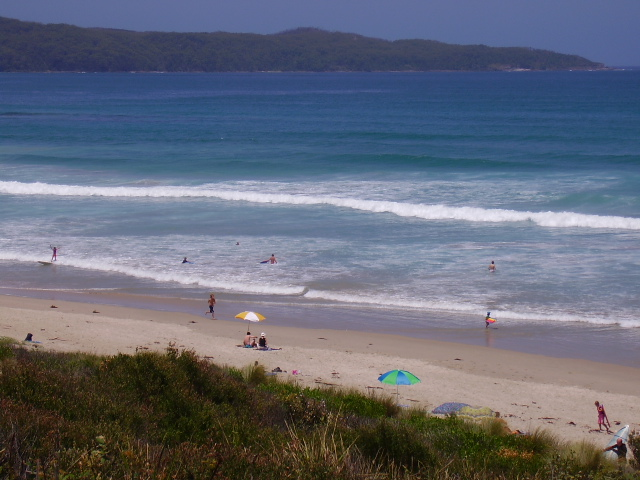 Cave Beach, Shoalhaven